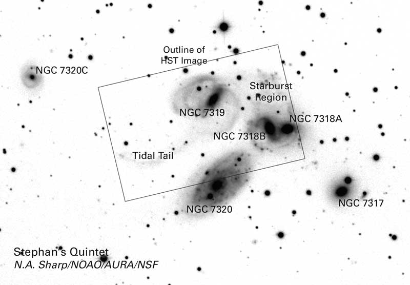 Stephan's Quintet, NGC7317, NGC7318A, NGC7318B, NGC7319, NGC7320, NGC 7320C